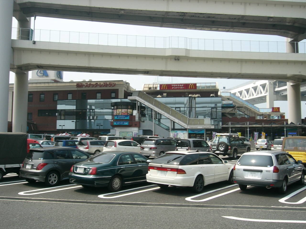 Daikoku Parking Area